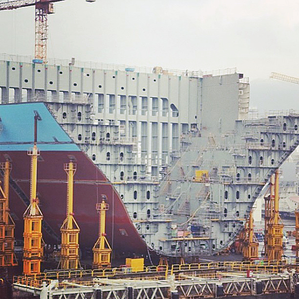 A view of Cargo holds 4 & 3 on one of the Triple-E vessels under construction, photographed in the DSME shipyard in Okpo, South Korea